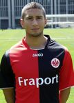 I emailed the picture owner asking if he can give a free photo under GNU Free Documentation License. He replied by giving this exact photo. If you have any questions about the email or reply, please send me a personal message to -Lemmy